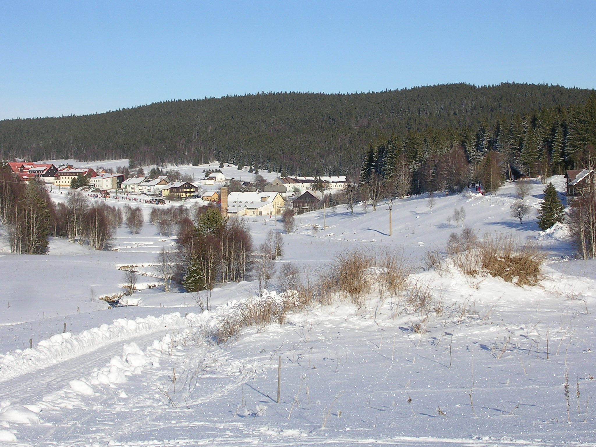 Kvilda, the Czech Republic.